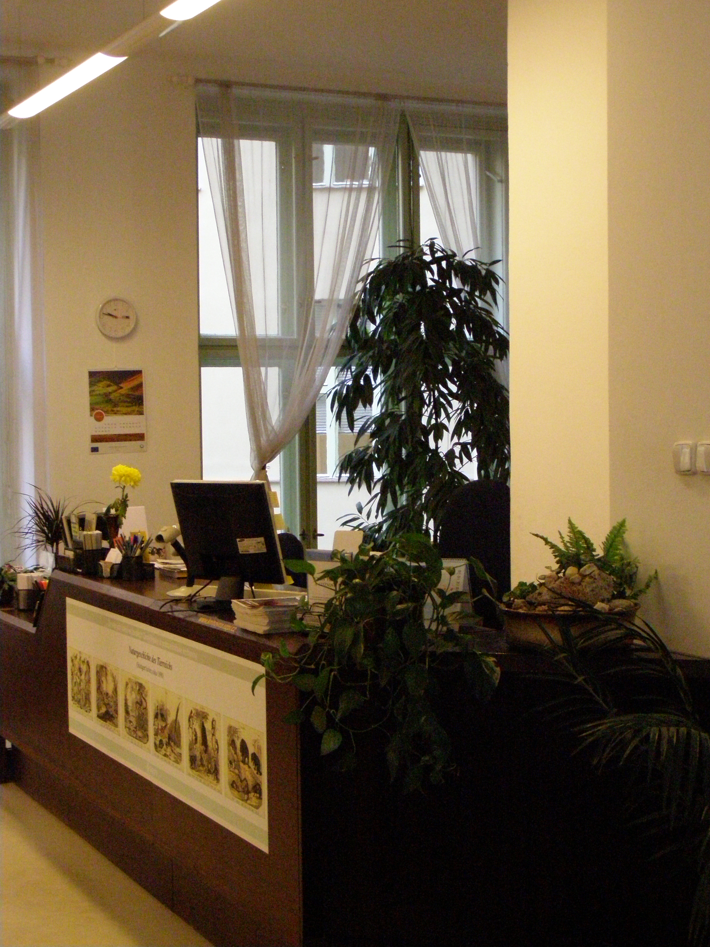 Agriculture and Food Library, Prague, Czech Republic.